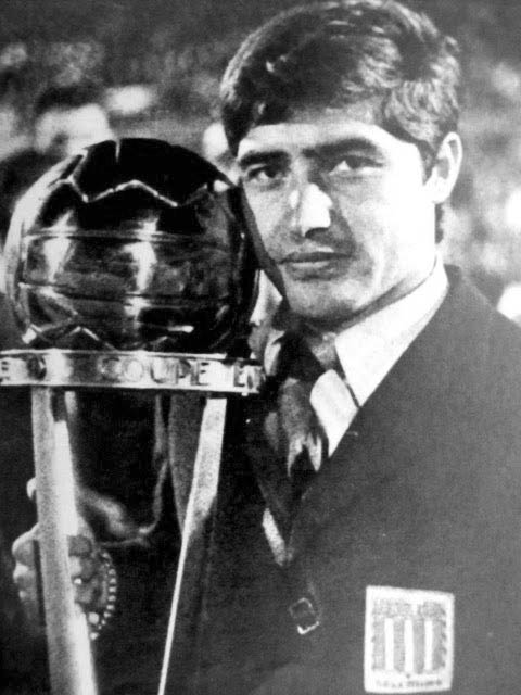 Juan Carlos Cárdenas, the scorer of 1967 Intercontinental Cup final, posing with the trophy.